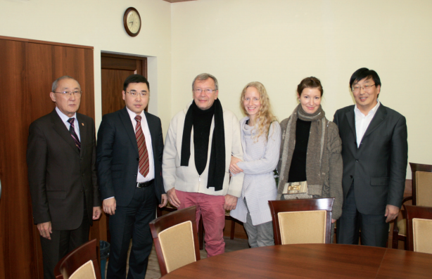 Oleg Sidorov with Viktor Erofeev